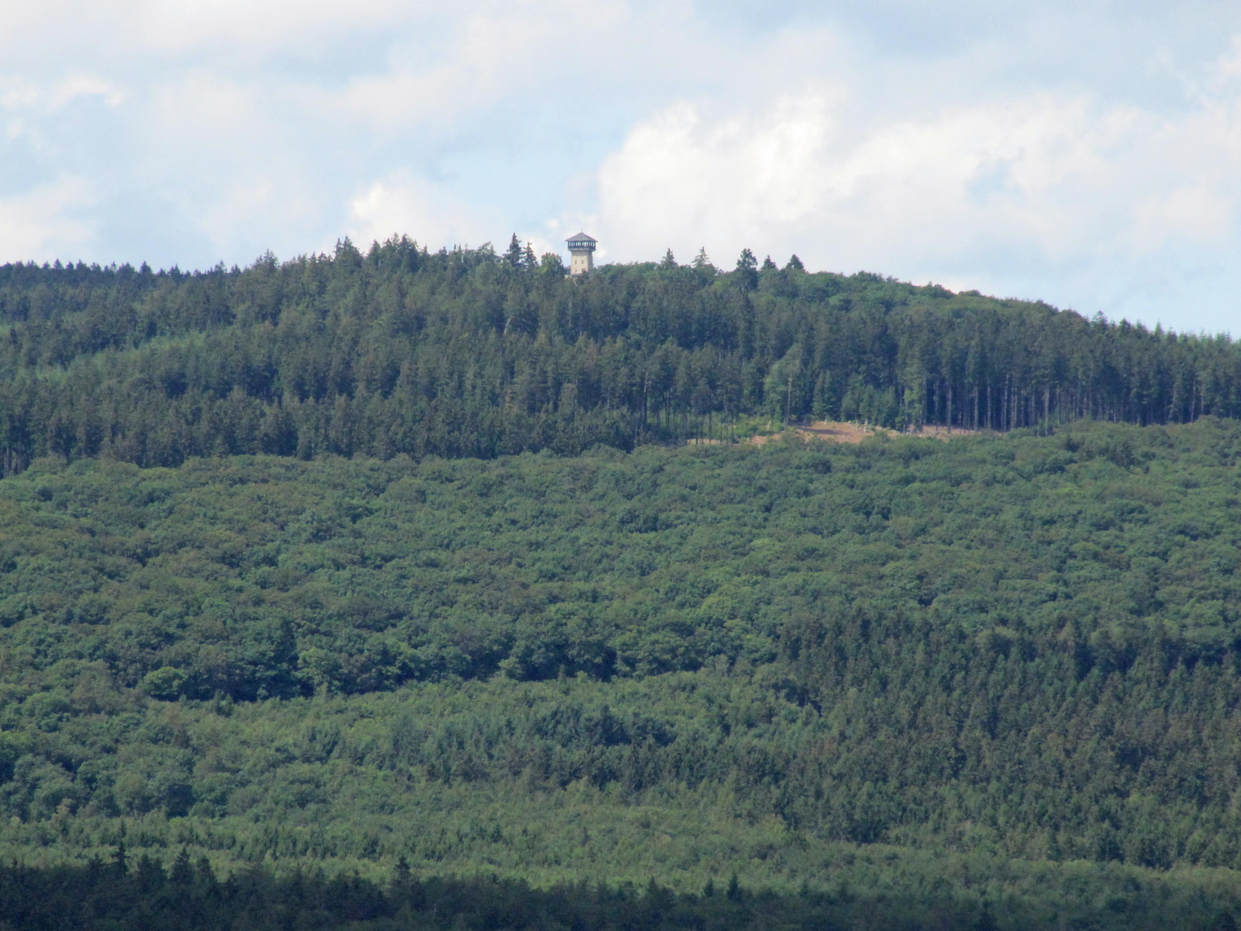 Mountain "Herzberg" with tower ("Herzbergturm"), at "Taunus" near "Saalburg" (castrum), Hochtaunuskreis, Germany.